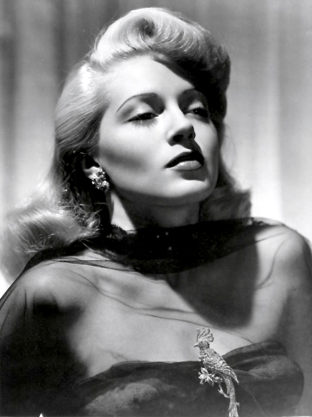 Original studio publicity photo of Lana Turner. Original has all margins. Seller shows blank reverse side image.